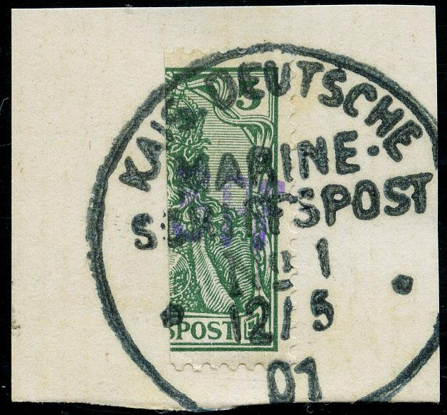 German empire 1901 fake Vineta Provisional on fragment. Catalogue: Sc. 65B, Mi. AI